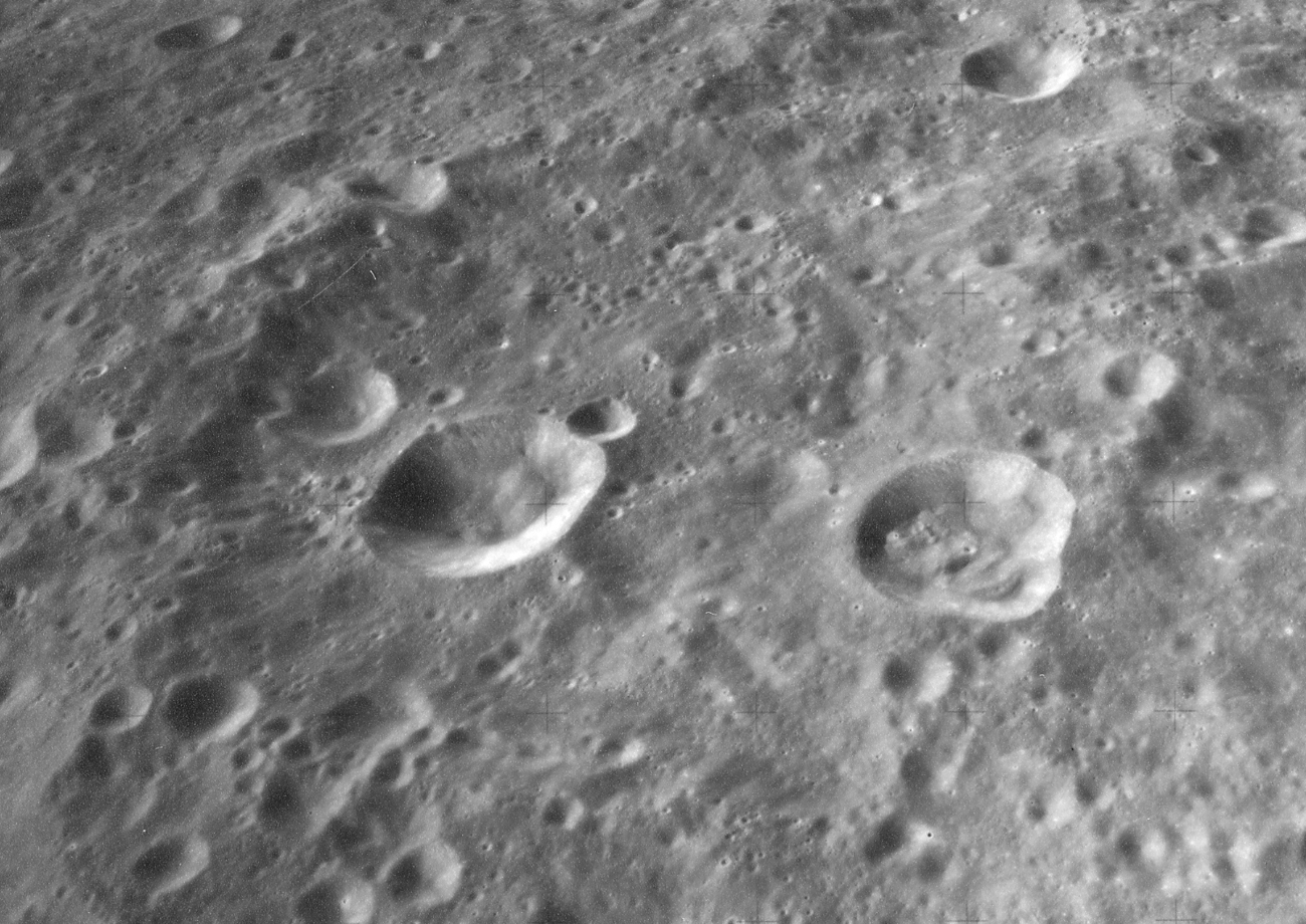 Oblique view of Vetchinkin, on the far side of the moon, facing north. Sun angle 36 deg, camera altitude 119 km.